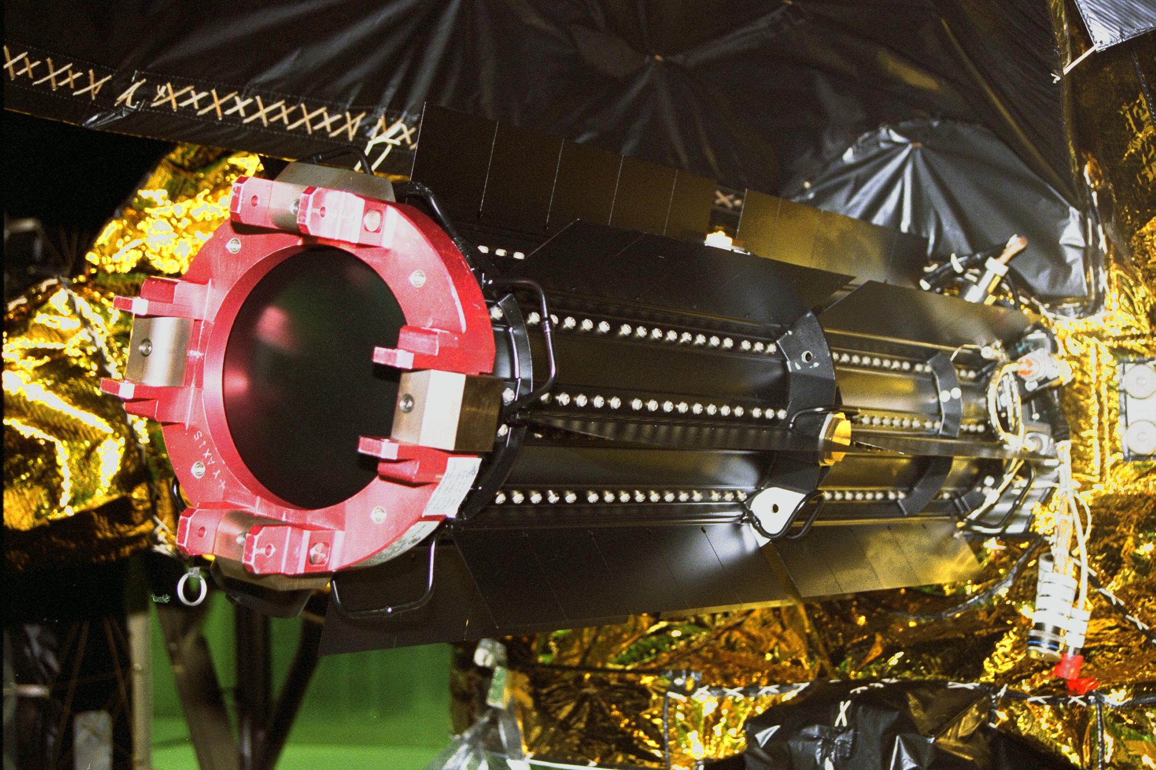 At Launch Complex 40 on Cape Canaveral Air Station, one of three Radioisotope Thermoelectric Generators (RTGs) is being installed on the Cassini spacecraft. RTGs are lightweight, compact spacecraft electrical power systems that have flown successfully on 23 previous U.S. missions over the past 37 years. These generators produce power by converting heat into electrical energy; the heat is provided by the natural radioactive decay of plutonium-238 dioxide, a non-weapons-grade material. RTGs enable spacecraft to operate at significant distances from the Sun where solar power systems would not be feasible. Cassini will travel two billion miles to reach Saturn and another 1.1 billion miles while in orbit around Saturn. Cassini is undergoing final preparations for liftoff on a Titan IVB/Centaur launch vehicle, with the launch window opening at 4:55 a.m. EDT, Oct. 13